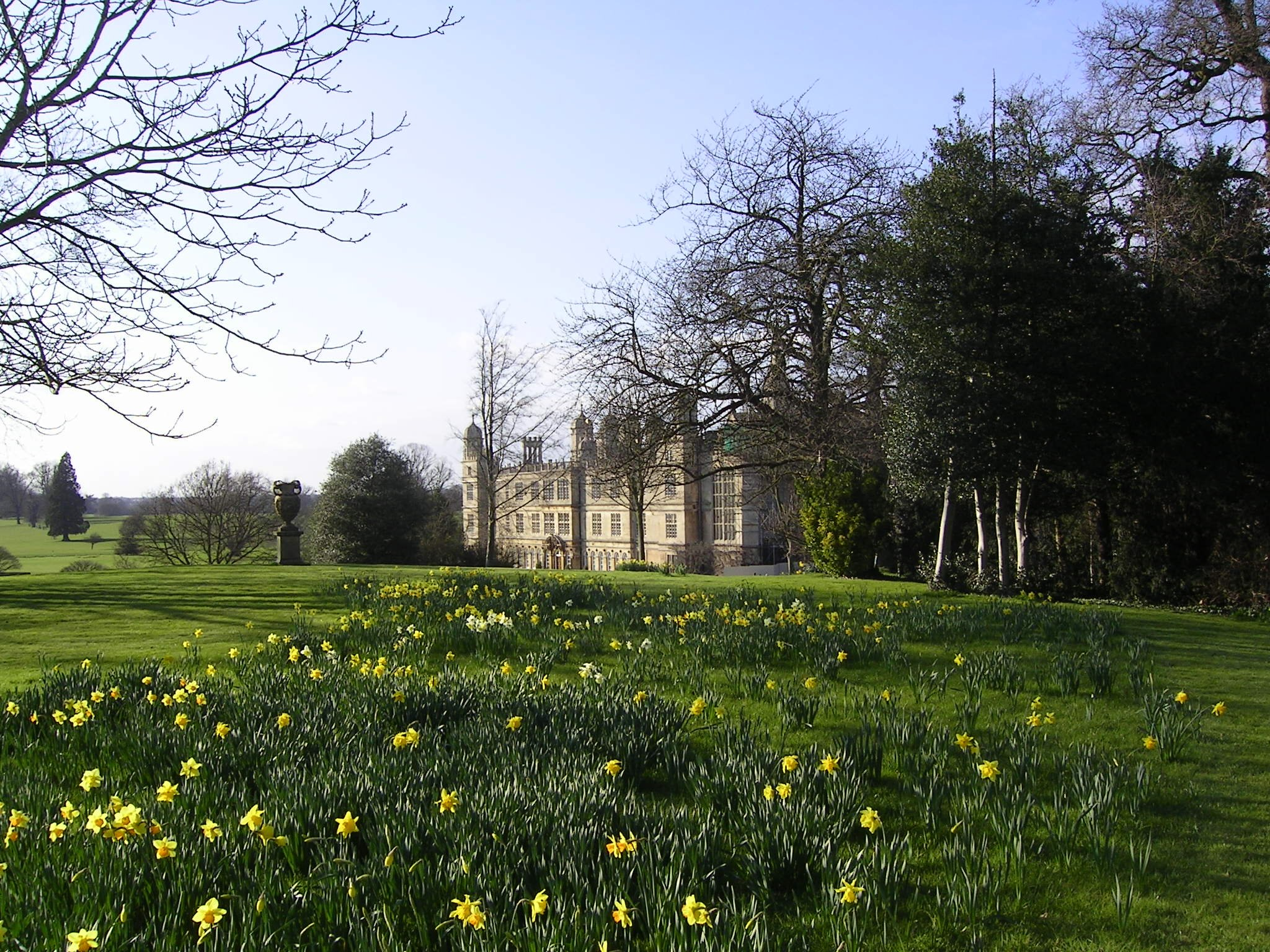 Burghley House